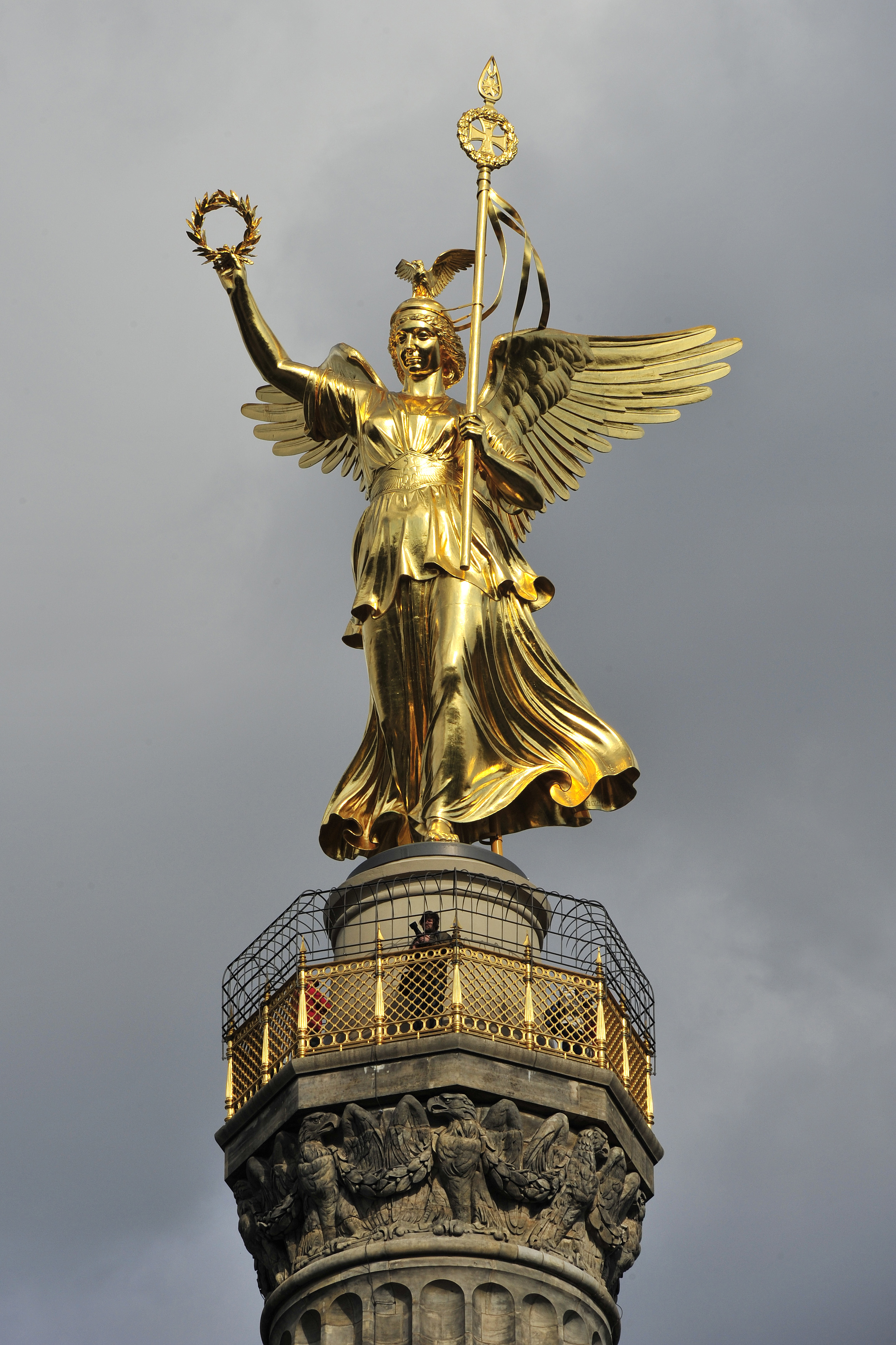 Berlin: Siegessäule This is a photograph of an architectural monument.